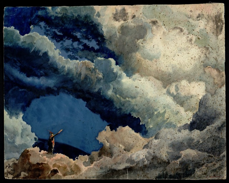 Mefistofele set design for the Prologue in Heaven by Carlo Ferrario.